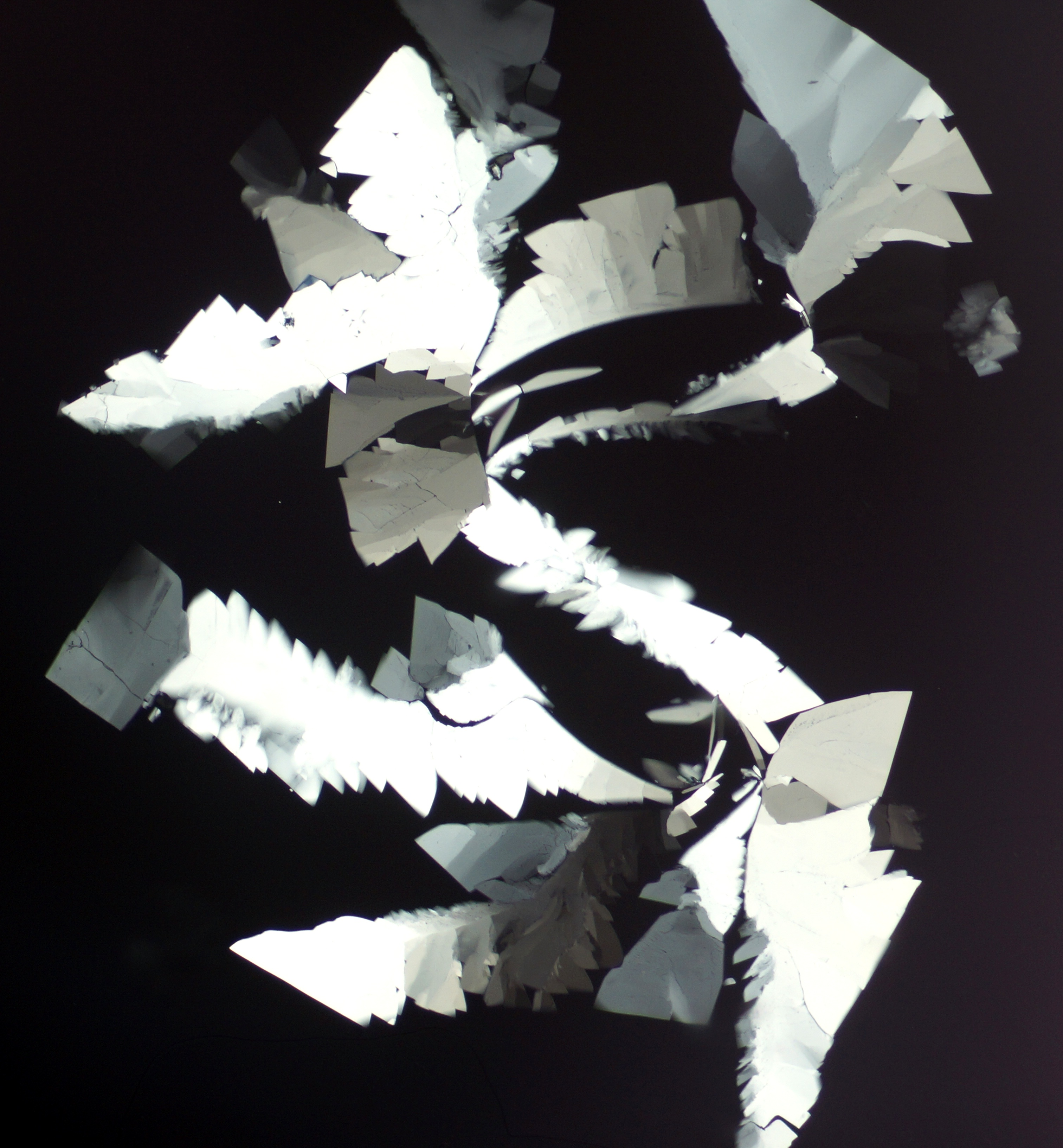 Lactose crystals under the microscope. Photo was taken under polarized light.